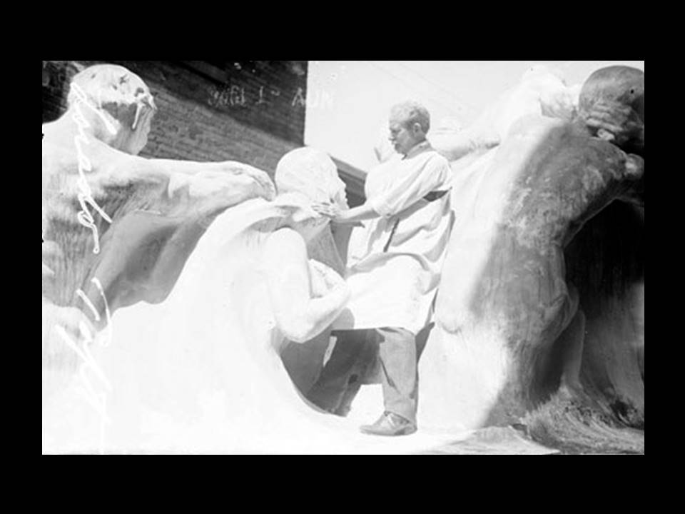 Lorado Taft standing on the partially complete Fountain of Time in the Washington Park community area of Chicago.